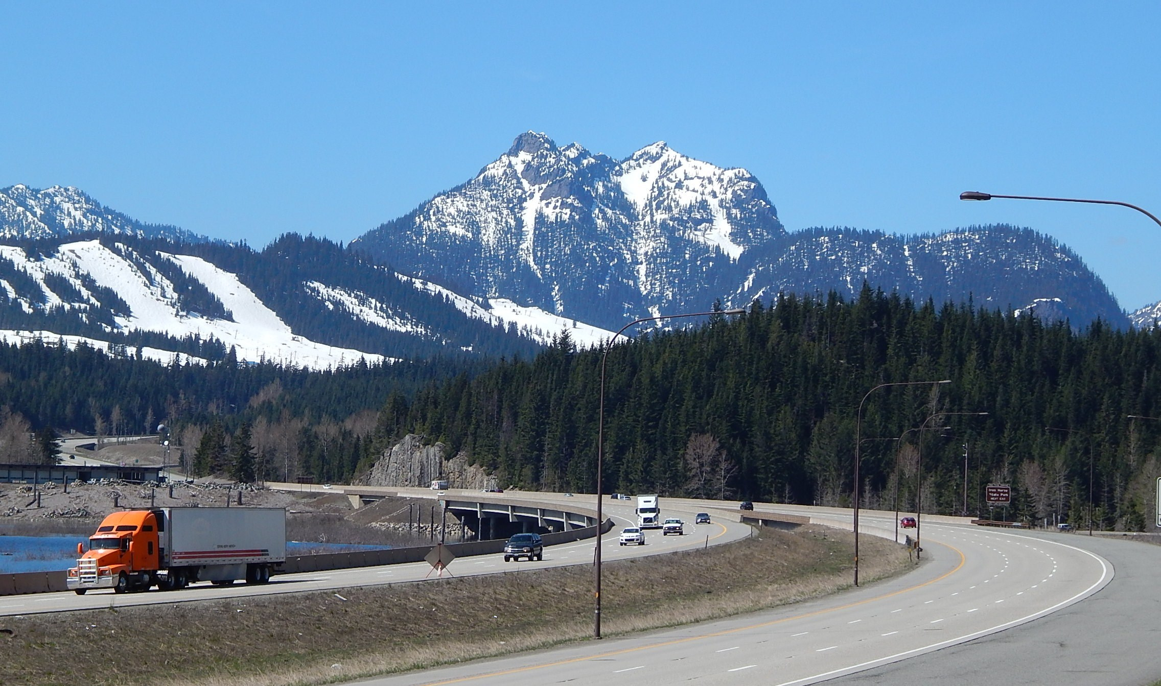 Interstate 90 at Snoqualmie Pass. Denny Mountain